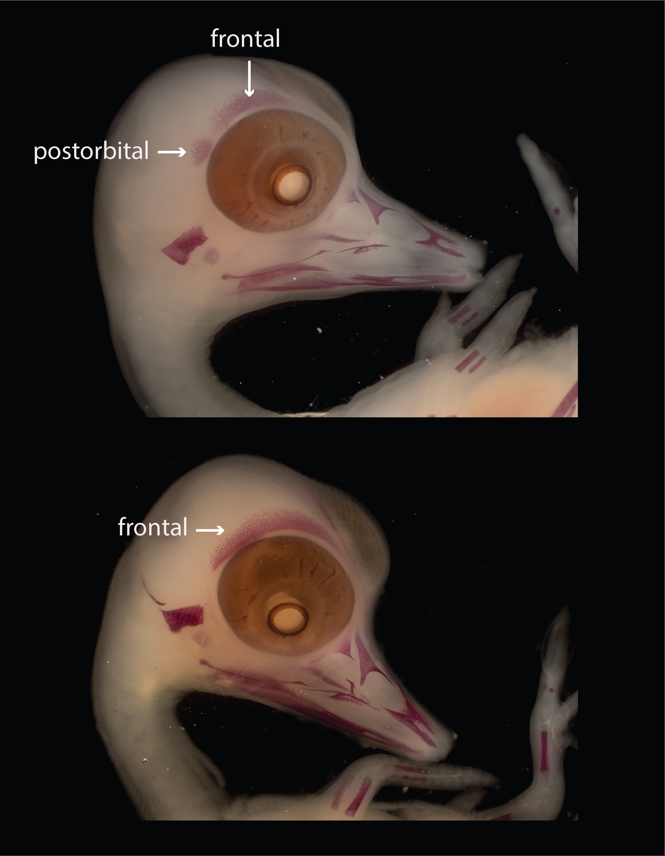 These images of duck embryos show how the postorbital is at a first a separate center of bone formation (above), before fusing to the frontal, becoming part of this bone at a later stage.